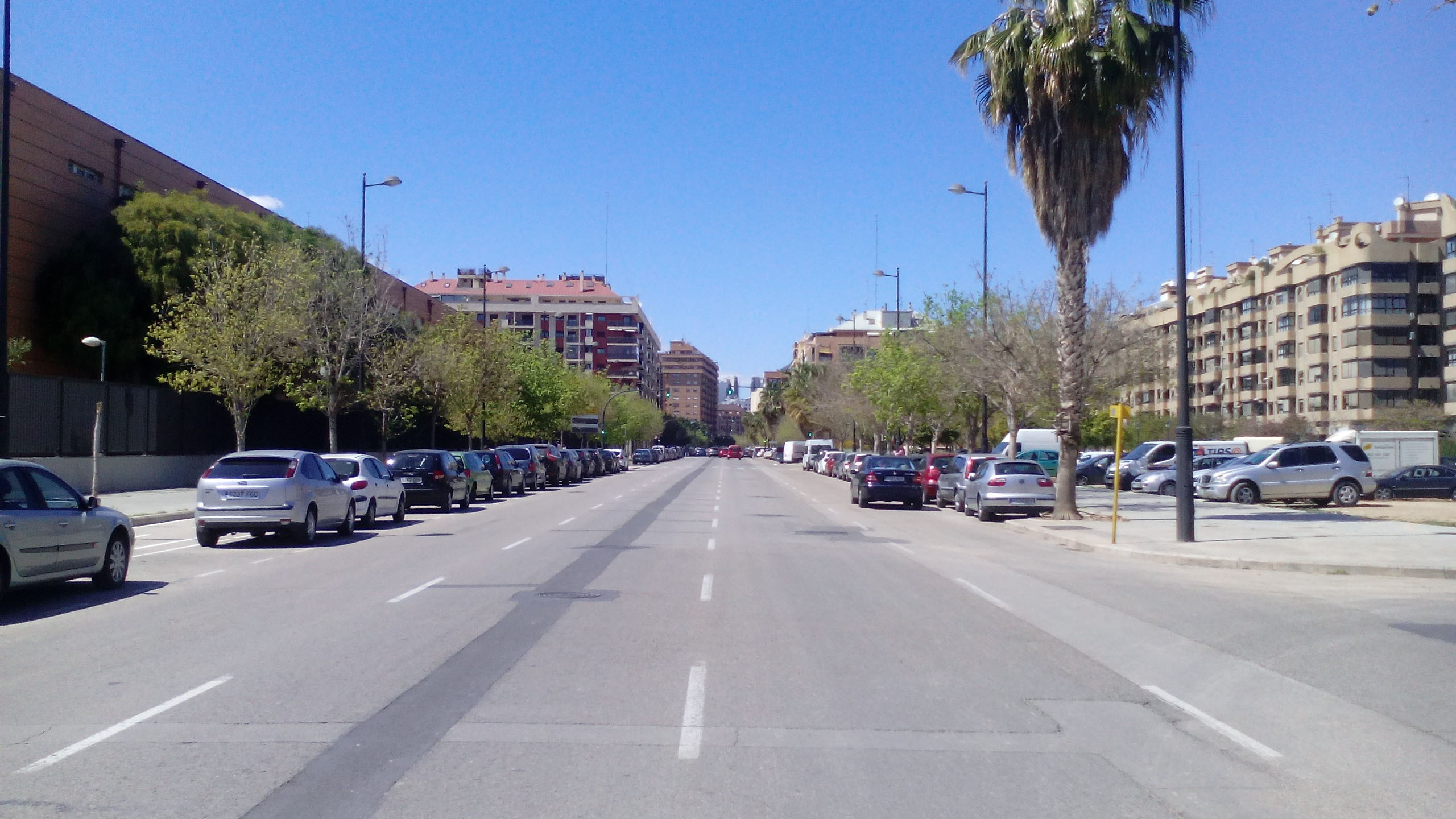 Avinguda de les Balears(Balearic avenue) in Valencia, Spain